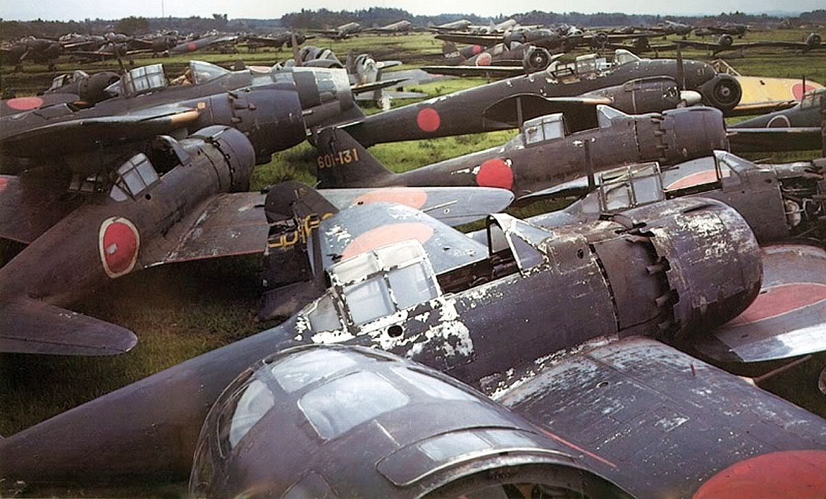 A6M5 Reisen (Zeke-52) 14.jpg